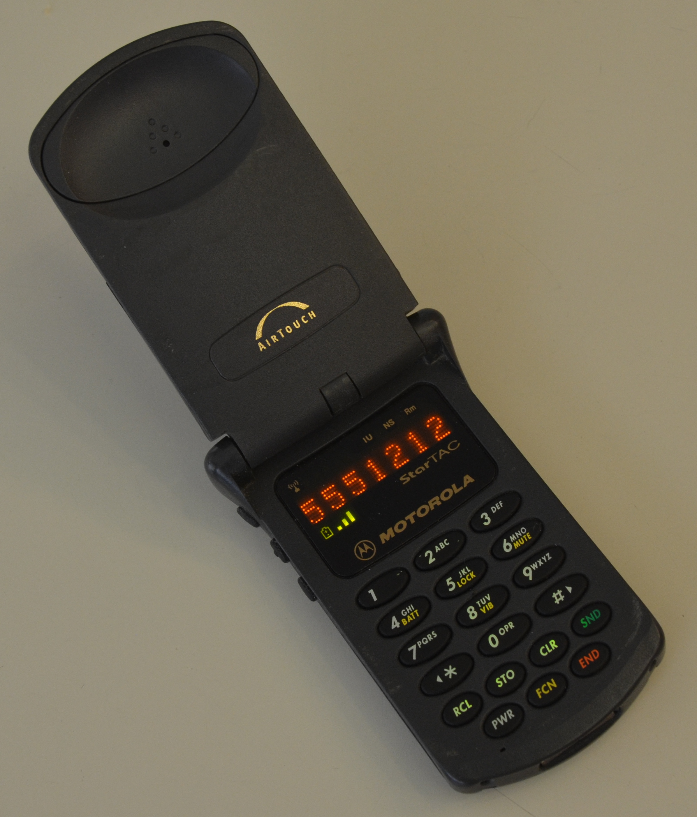 This is a first generation analog StarTAC cellular phone from Motorola.